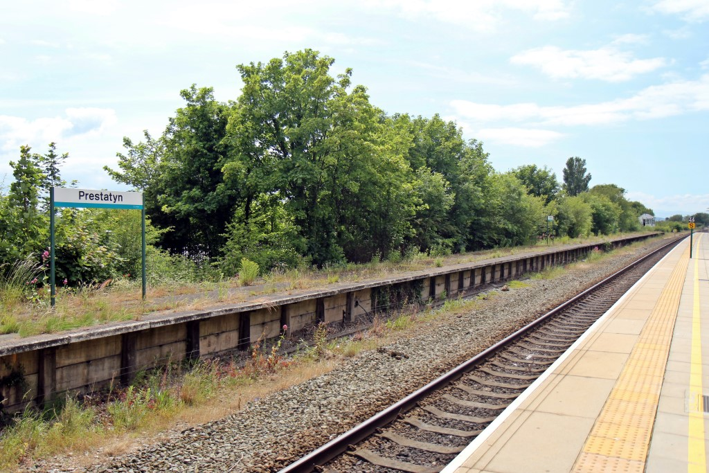 Disused platform, Prestatyn railway station